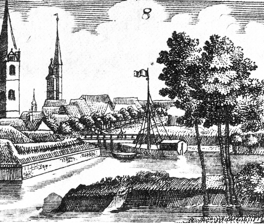 Boat on the river Oker in Braunschweig near Bammelsburg/Wendentor 1716